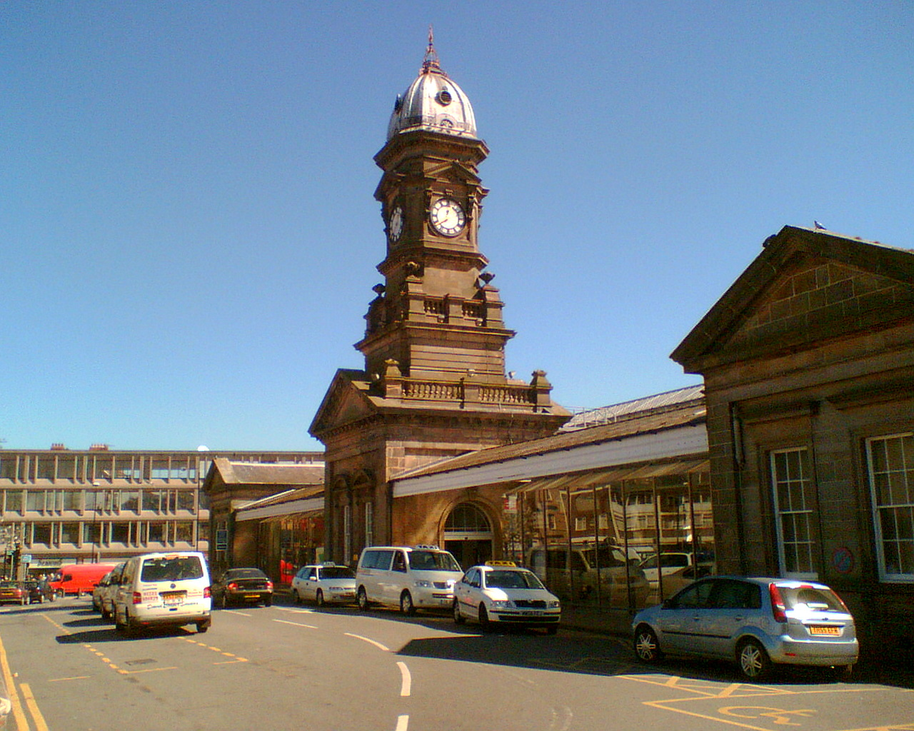 Photograph of Scarborough railway station.